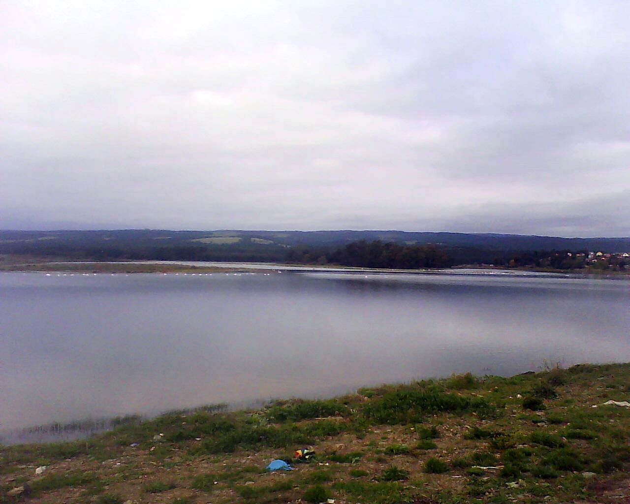 Petrel Lake, on October 4, 2010.